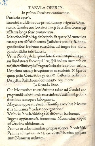 Page from Table of Contents of Latin version of De obsidione Scondrensi (The Siege of Shkodra)